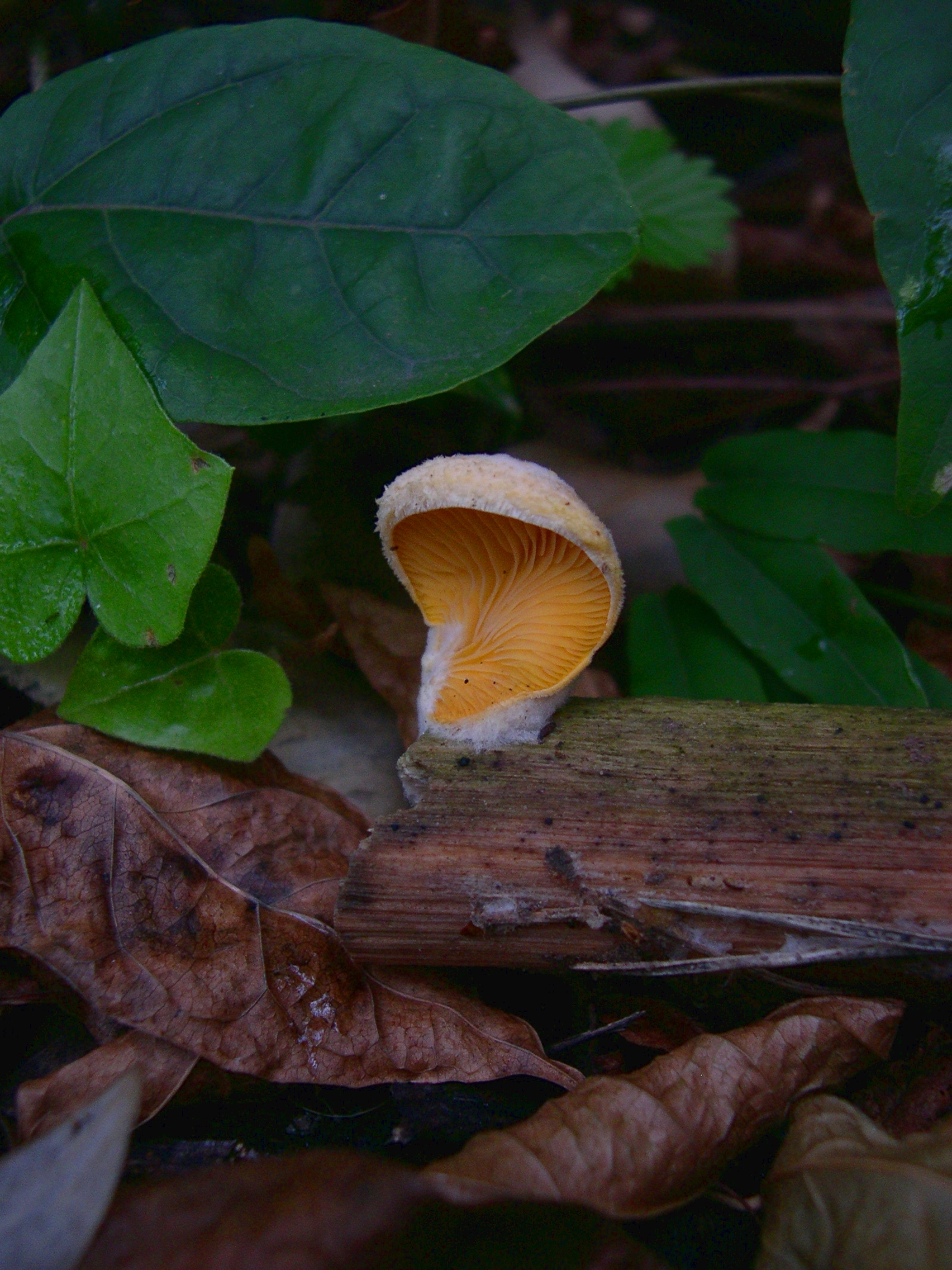 Phyllotopsis nidulans (Pers.: Fries) Singer